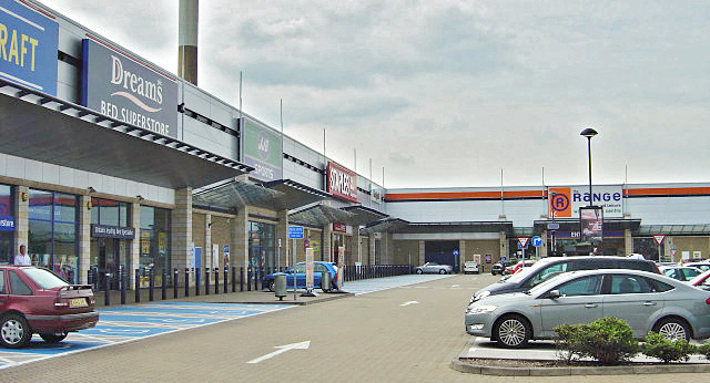 Lady Bay Retail Park Modern retail redevelopment on a former engineering works site.